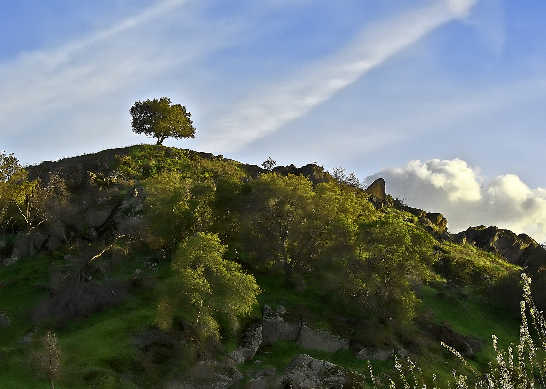 Trees on a stony outcrop, Sierra Nevada foothills, near Woodlake, California.